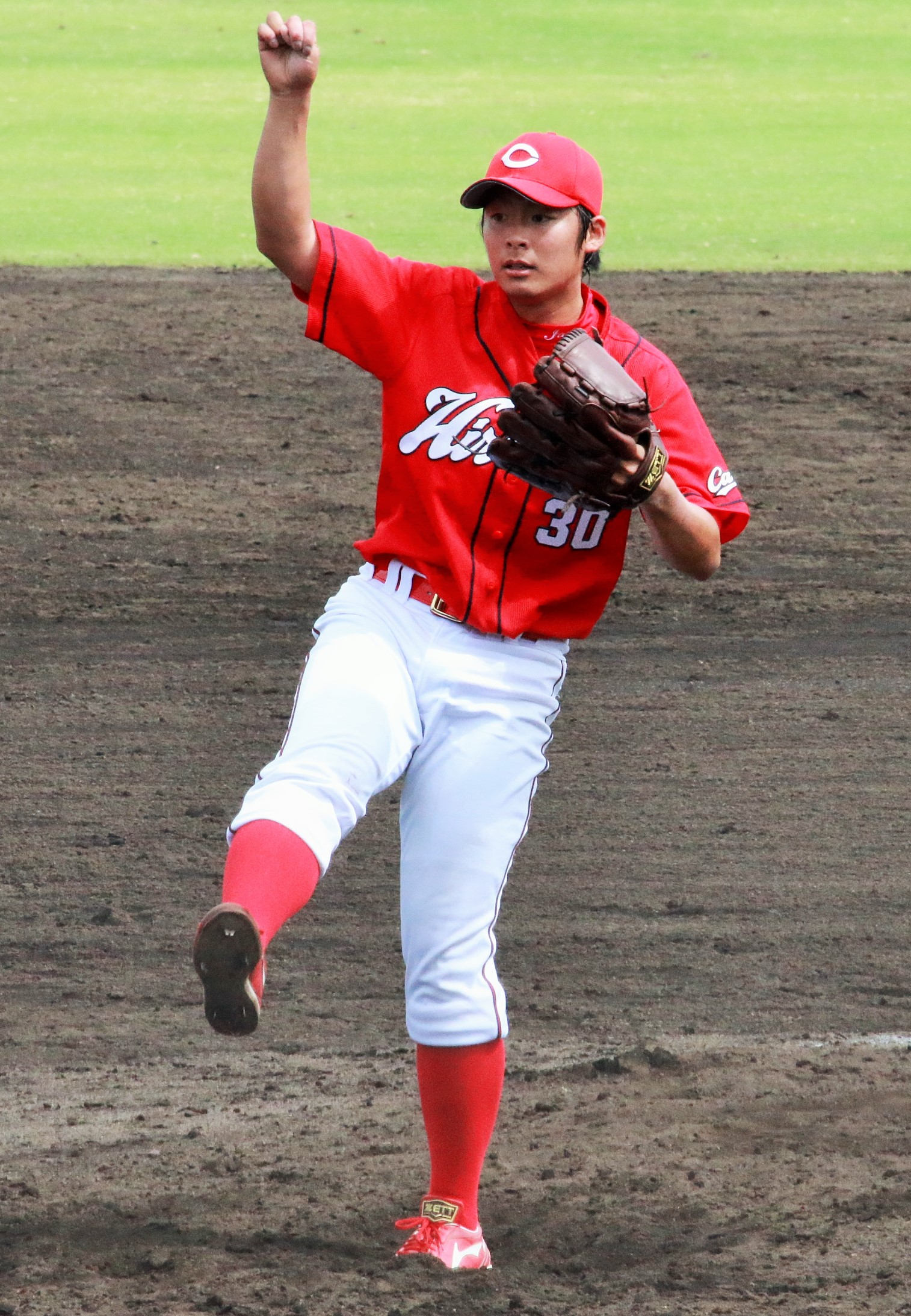 Ryuji Ichioka, pitcher of the Hiroshima Toyo Carp, at Hanshin Naruohama Baseball Ground.